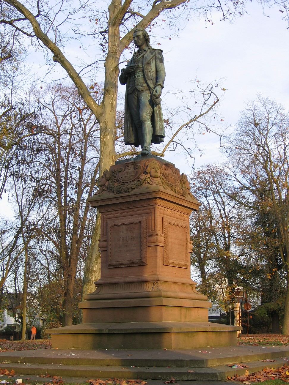 Monument to the poet Friedrich Schiller in Marbach am Neckar (Germany)